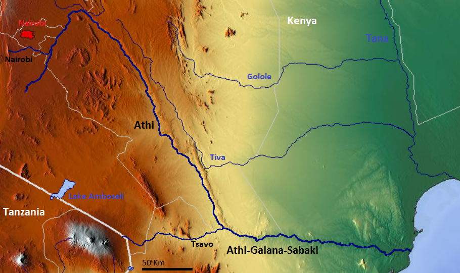 The Athi Basin OSM